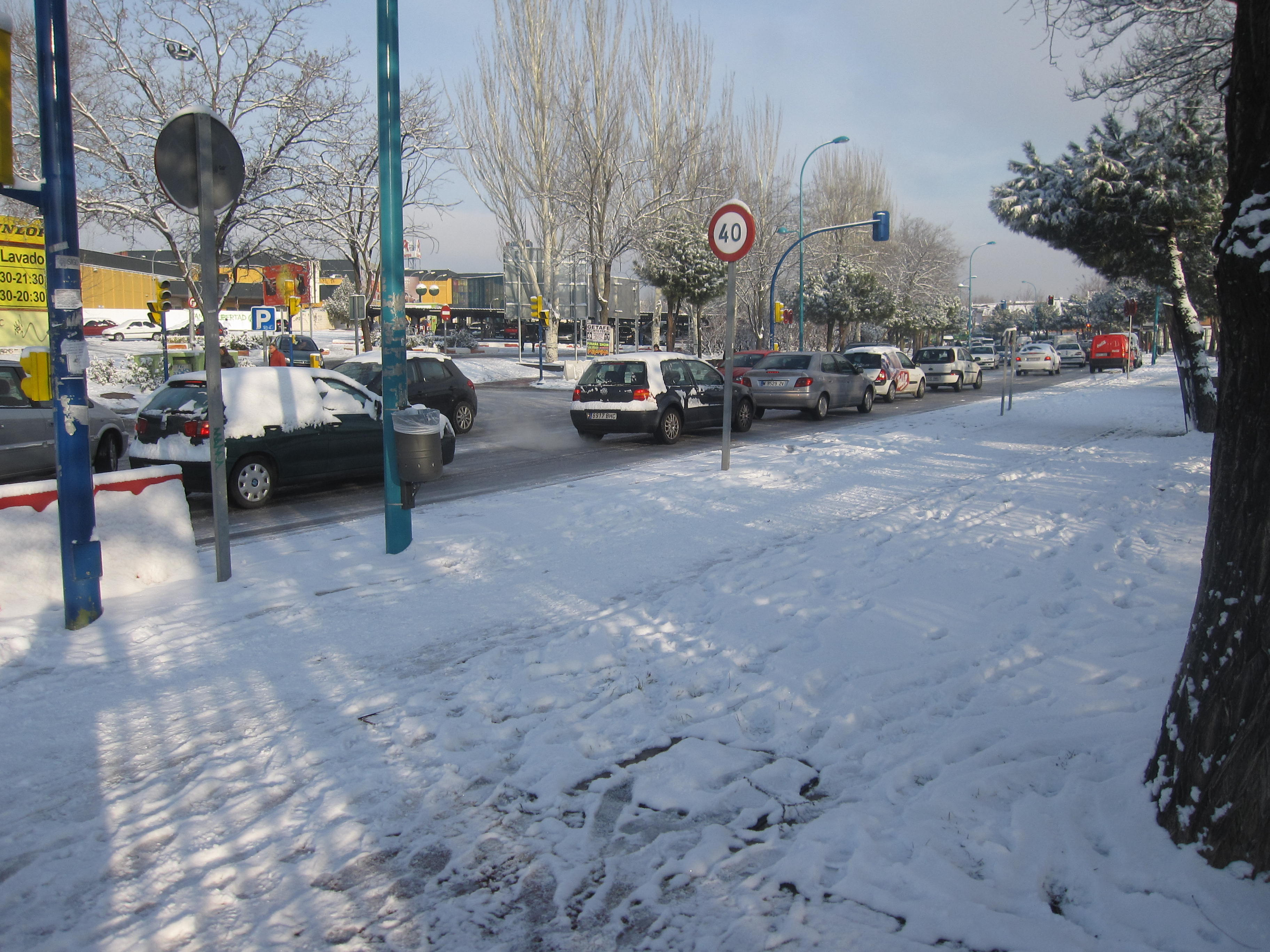 Avenue Arcas del Agua in the Sector 3 (Getafe), Community of Madrid, Spain.